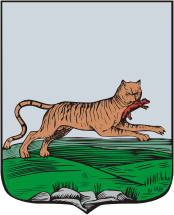 Irkutsk (Irkutsk oblast), coat of arms (1790)